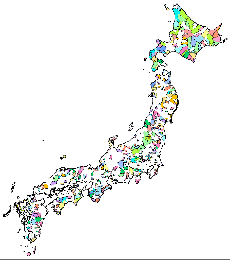 Overview map of the districts ('gun') of Japan. Created by Rarelibra 13:41, 1 August 2007 (UTC) for public domain use, using MapInfo Professional v8.5 and various mapping resources.